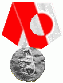 Nersonaat Medal of Merit Greenland